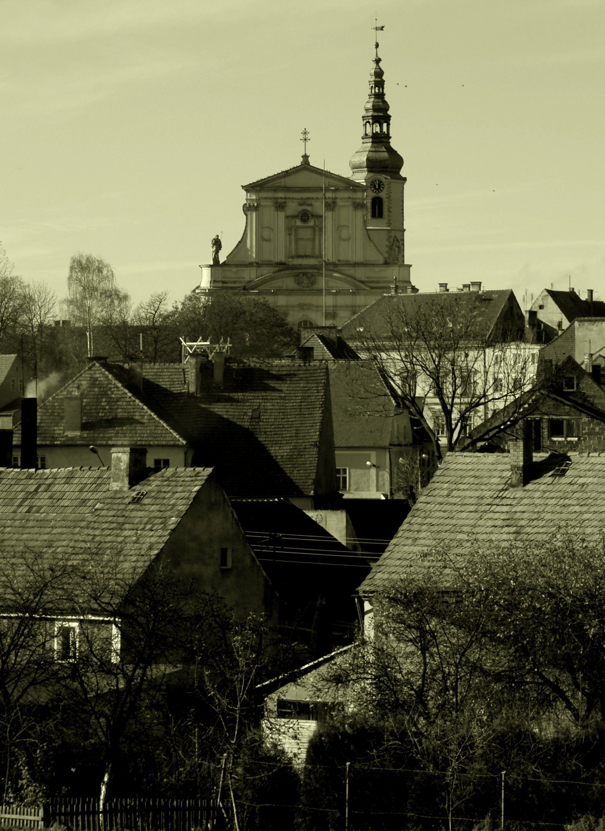 Lubomierz